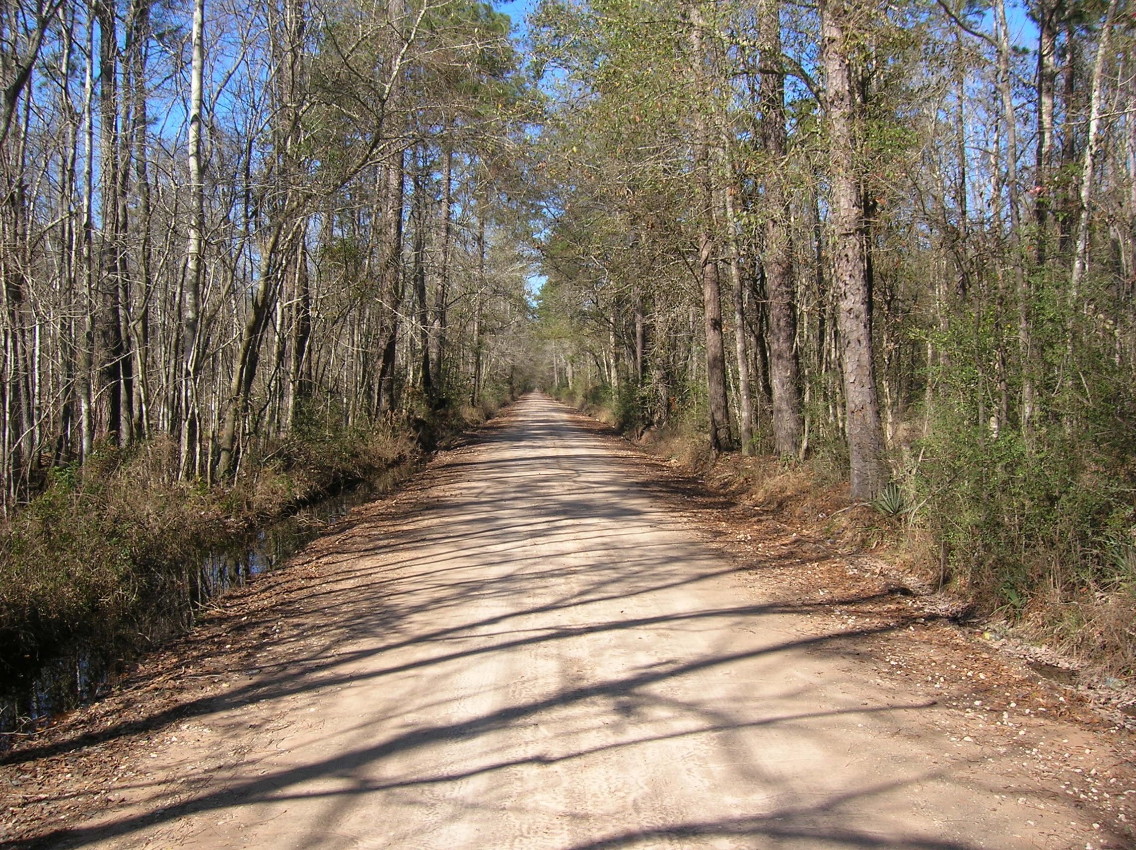 Bragg Road (aka "Ghost Road") located in Hardin County, Texas. Located north of Saratoga, looking north. This is where the GCSF Railroad tracks ran from Bragg Station to Saratoga until 1934.